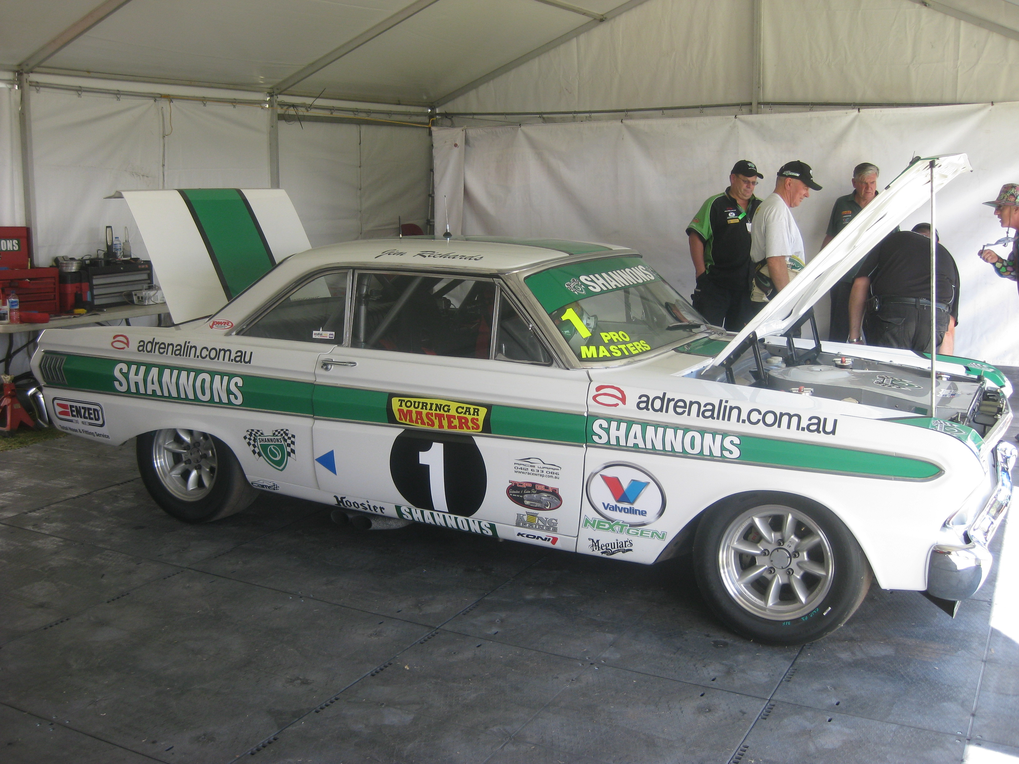 1964 Ford Falcon Sprint of Jim Richards. Round 1, 2014 Touring Car Masters, Adelaide Parklands Circuit.